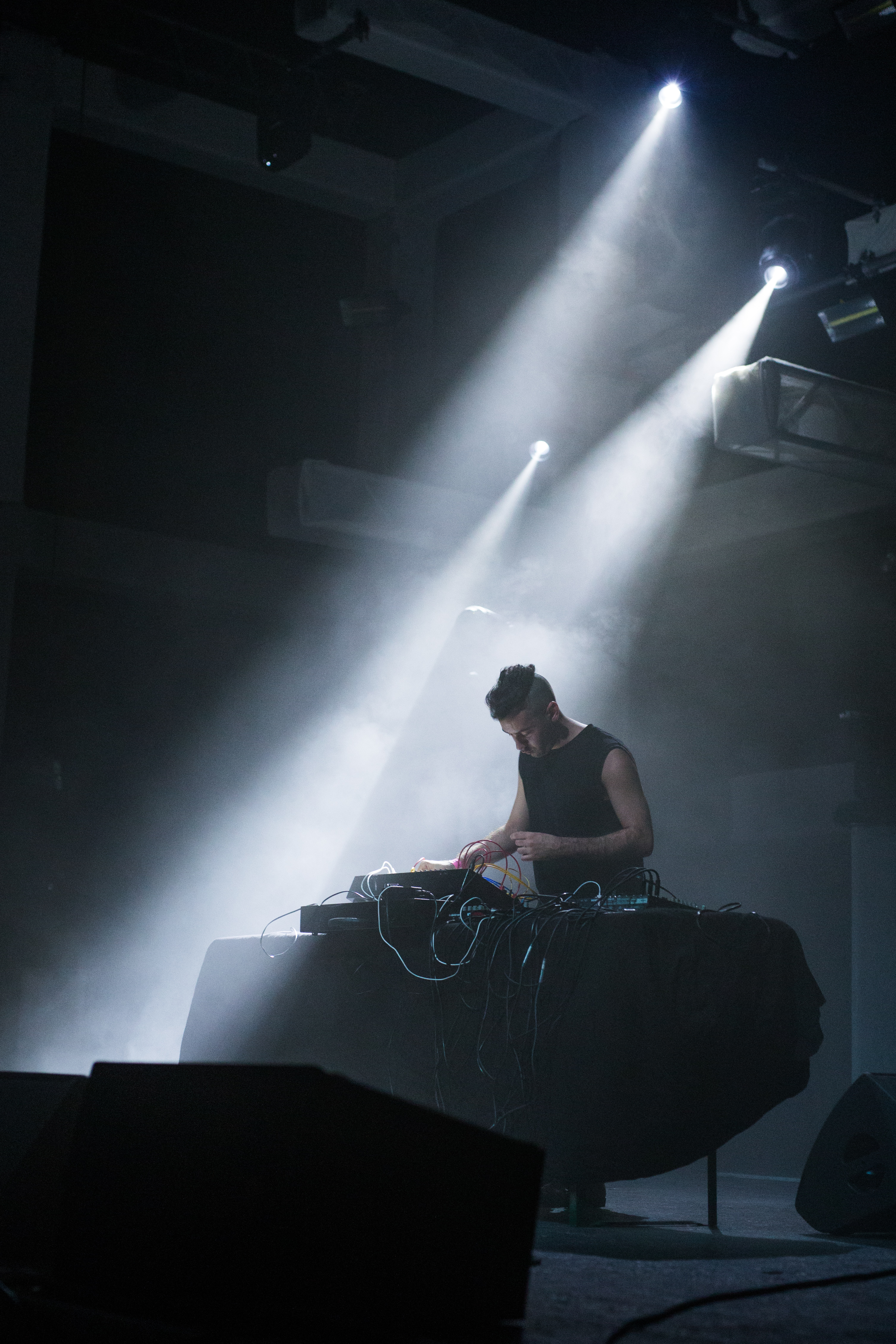 Joey Blush (aka Blush Response) Maschinenfest 2016 October 14th-16th, 2016 Turbinenhalle Oberhausen